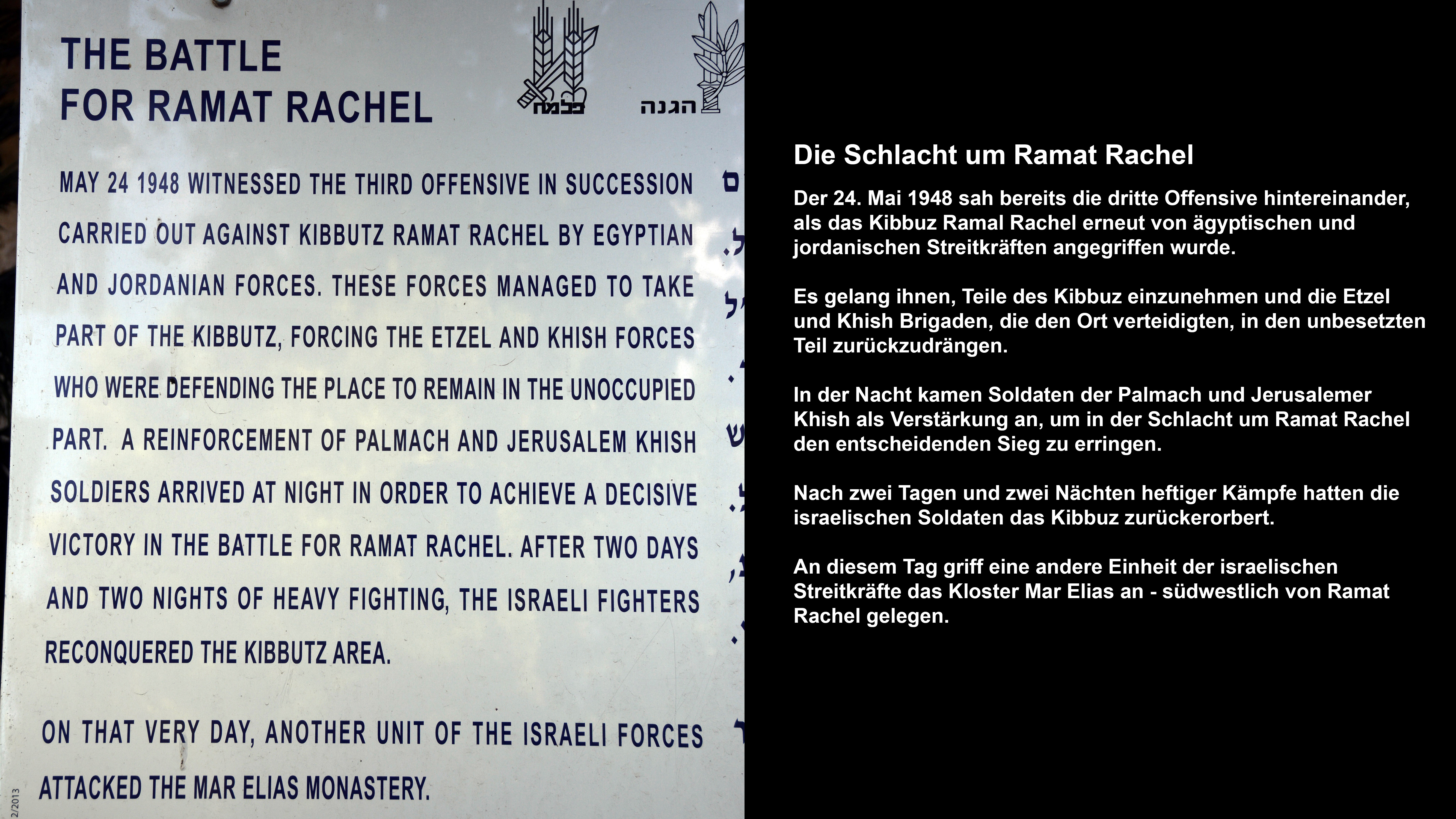 Found in the Ramat Rachel Hotel